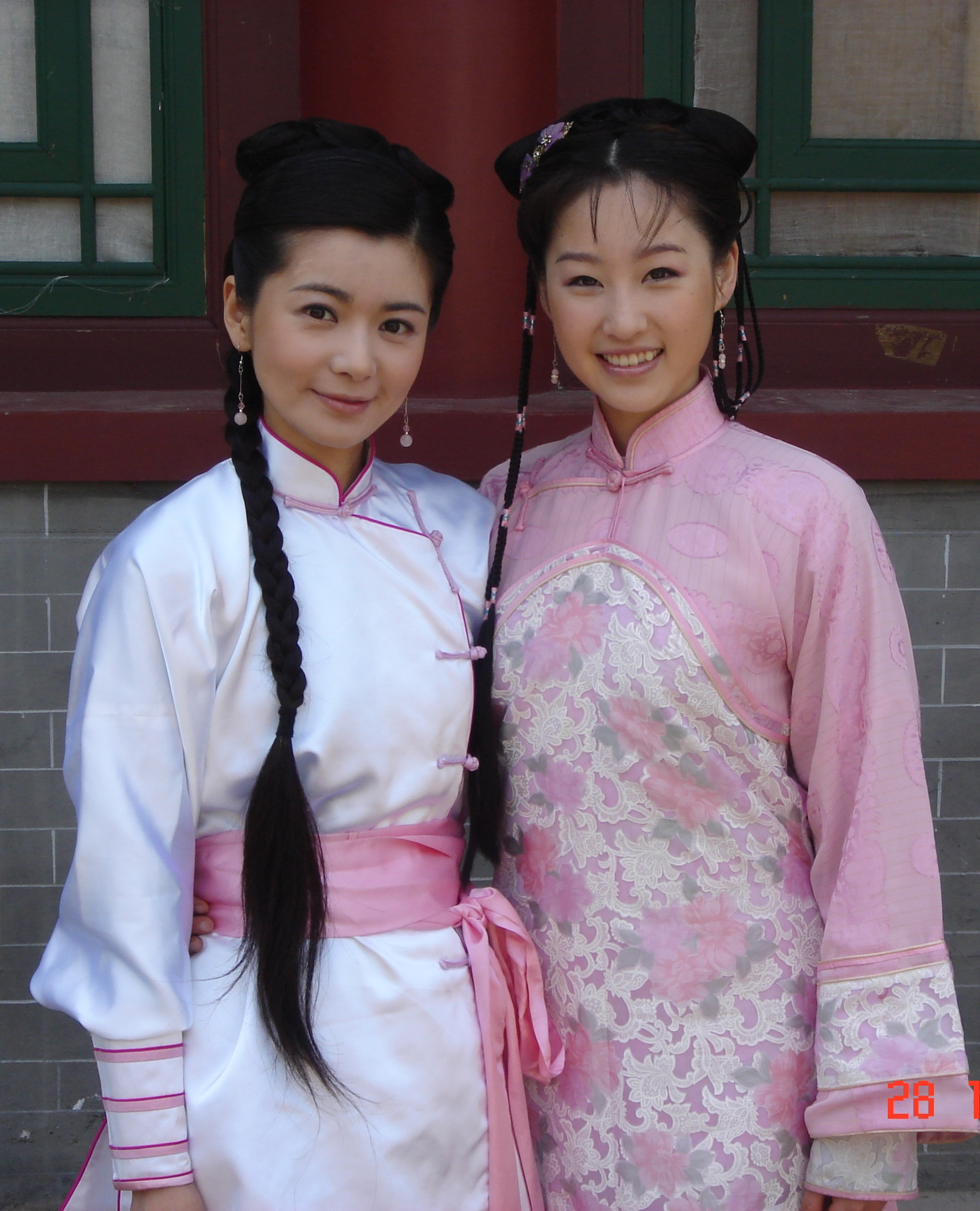 Jang Seo-hee (left) acting su qin or Zhen Fei & Wang Xiangru(right) acting Rui er in Geng Zi Feng Yun ("Years of 1900")